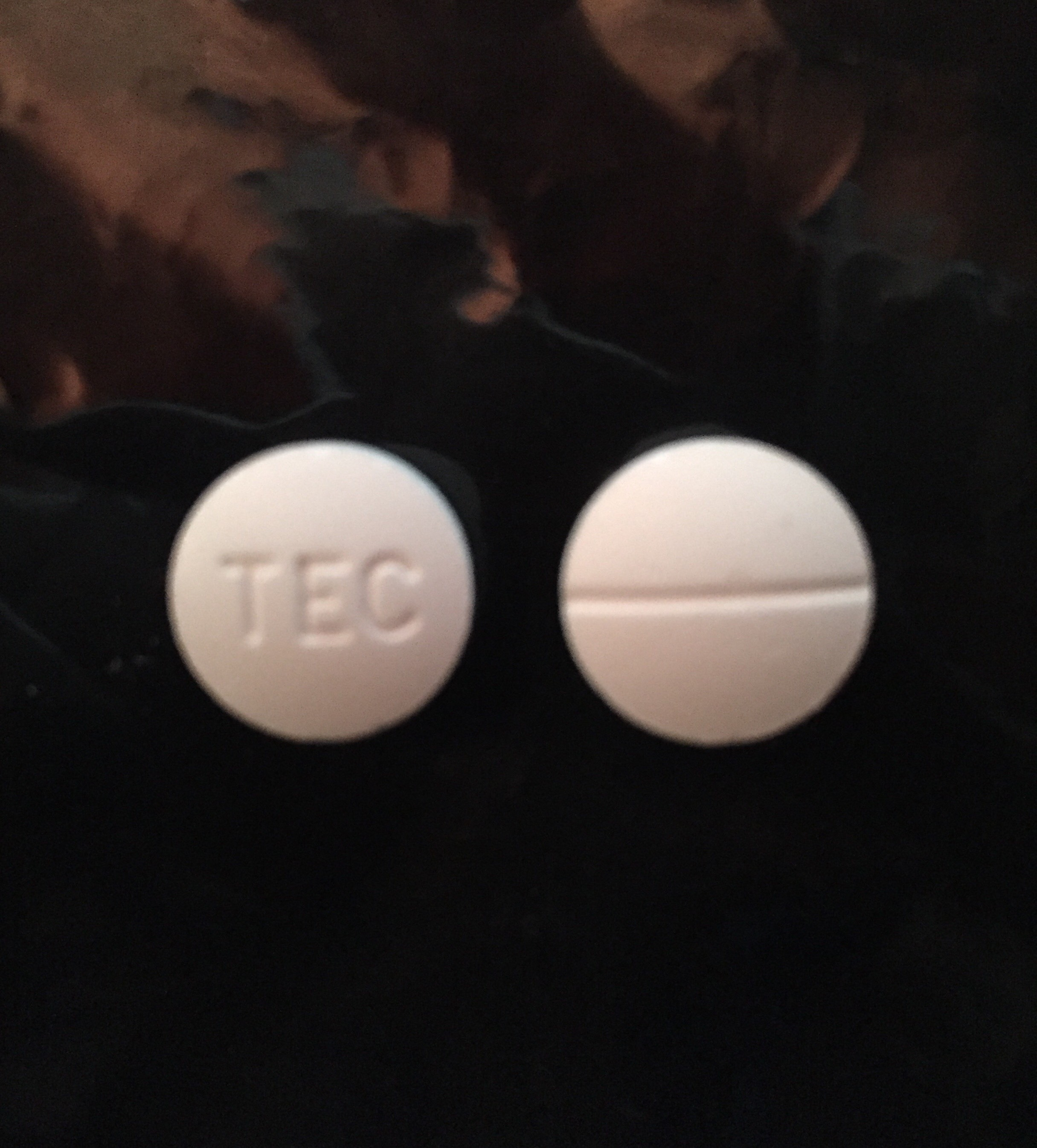 Oxycocet (5 mg oxycodone/325 mg acetaminophen) from Canada.